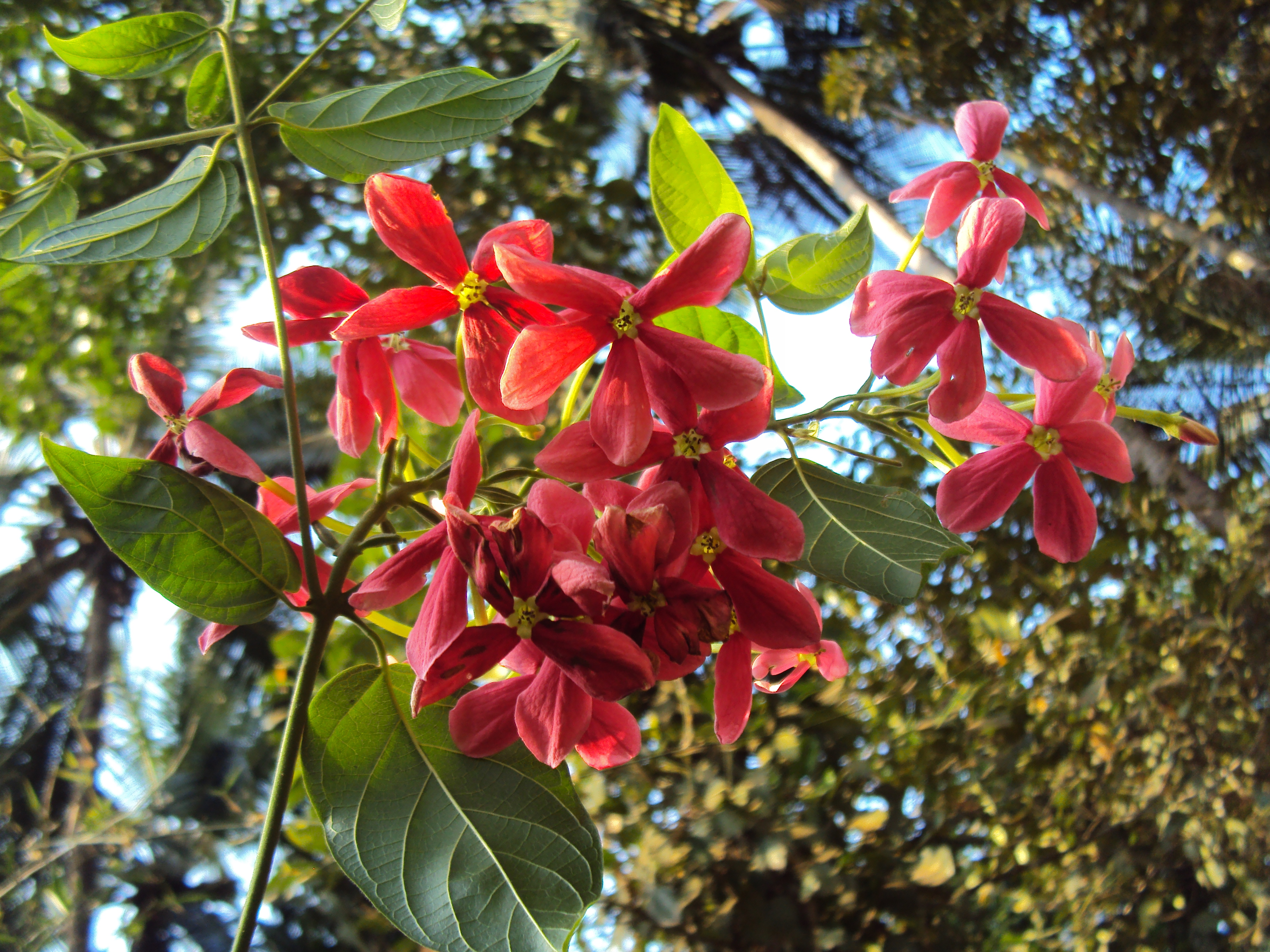 Combretum indicum